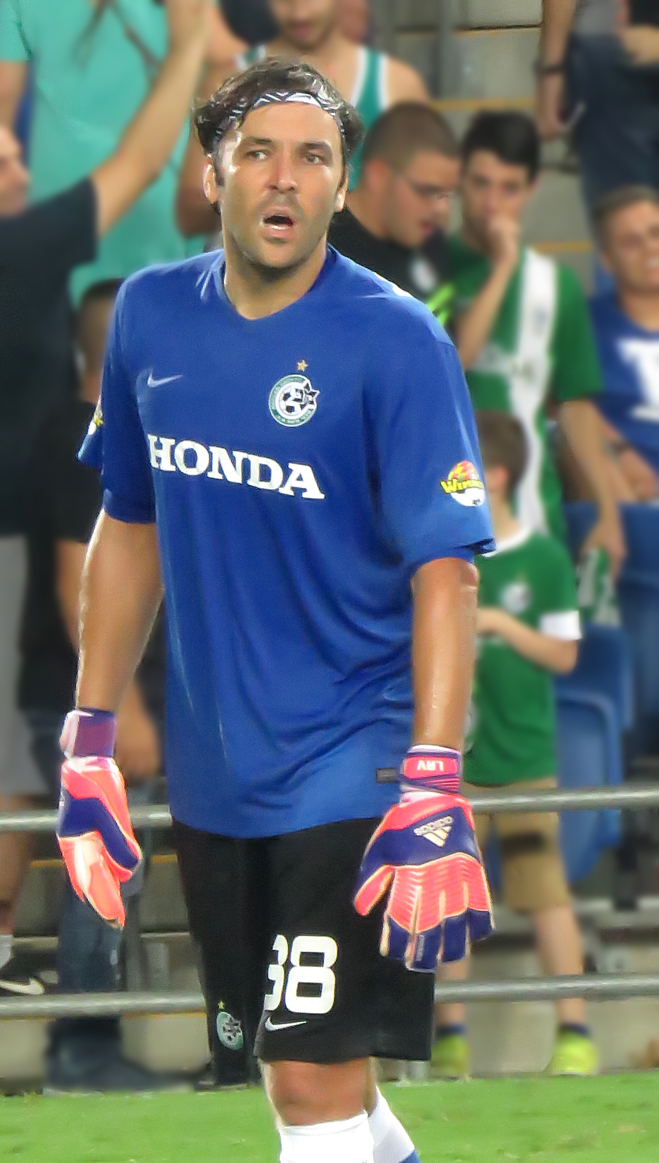 Hapoel Ra'anana vs. Maccabi Haifa F.C., 3 October, 2015